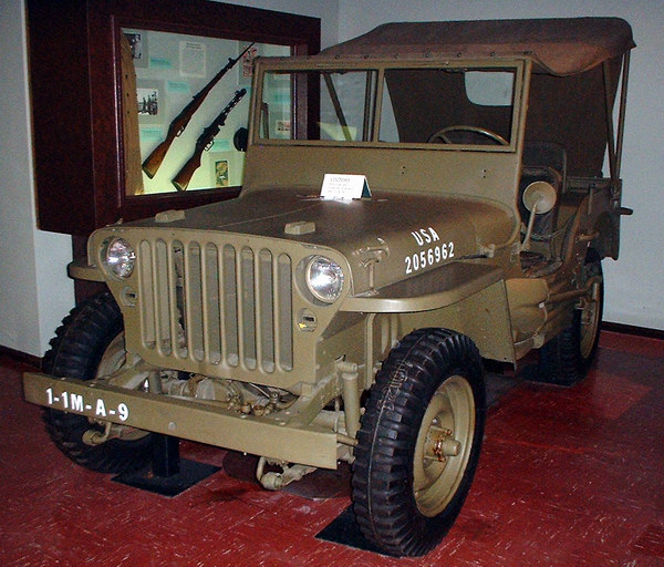 Willys MB jeep. Picture taken on trip to Virginia War Museum on March 14, 2006